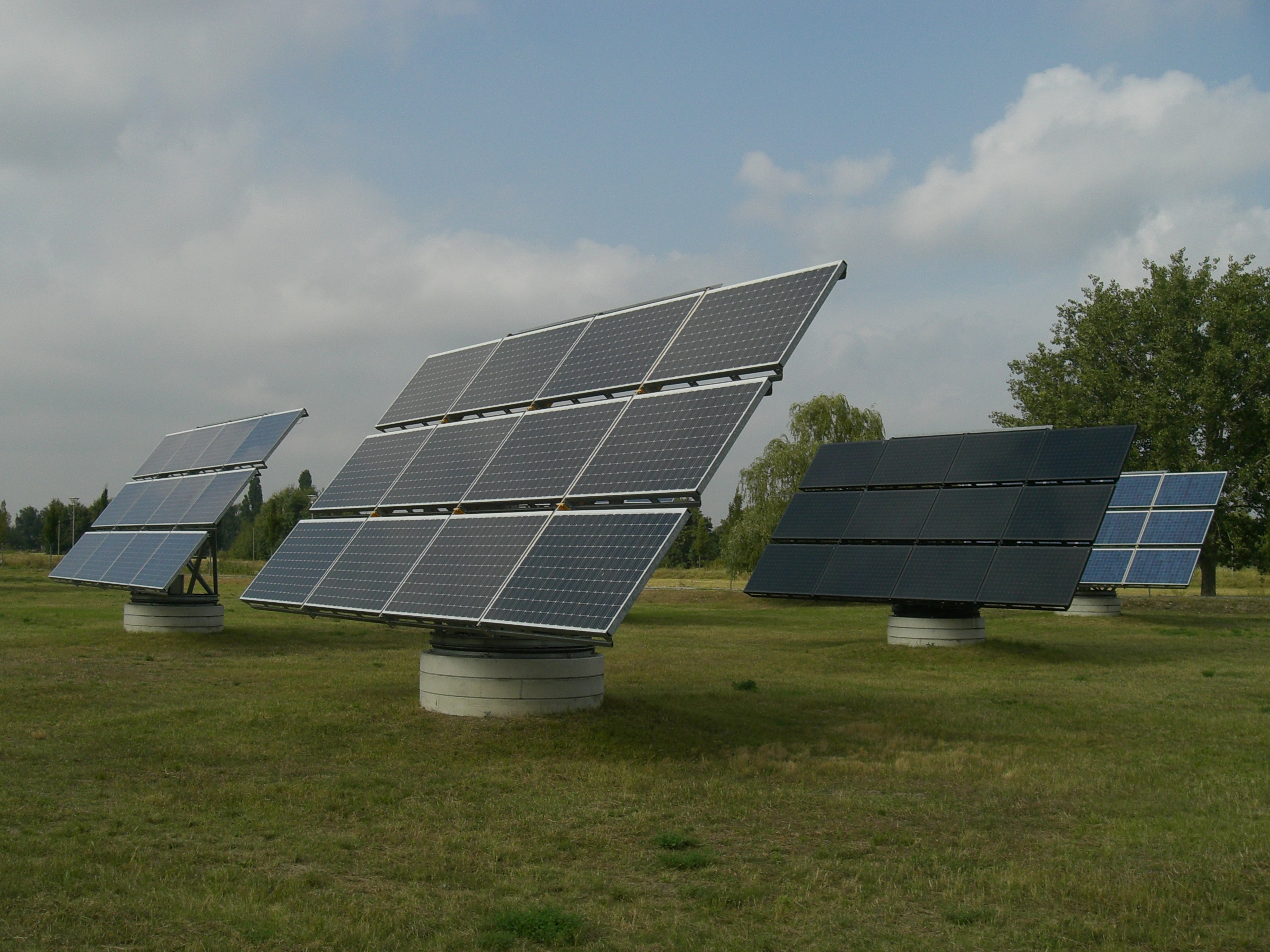 Photovoltaic power station in Adlershof, Berlin, Germany.